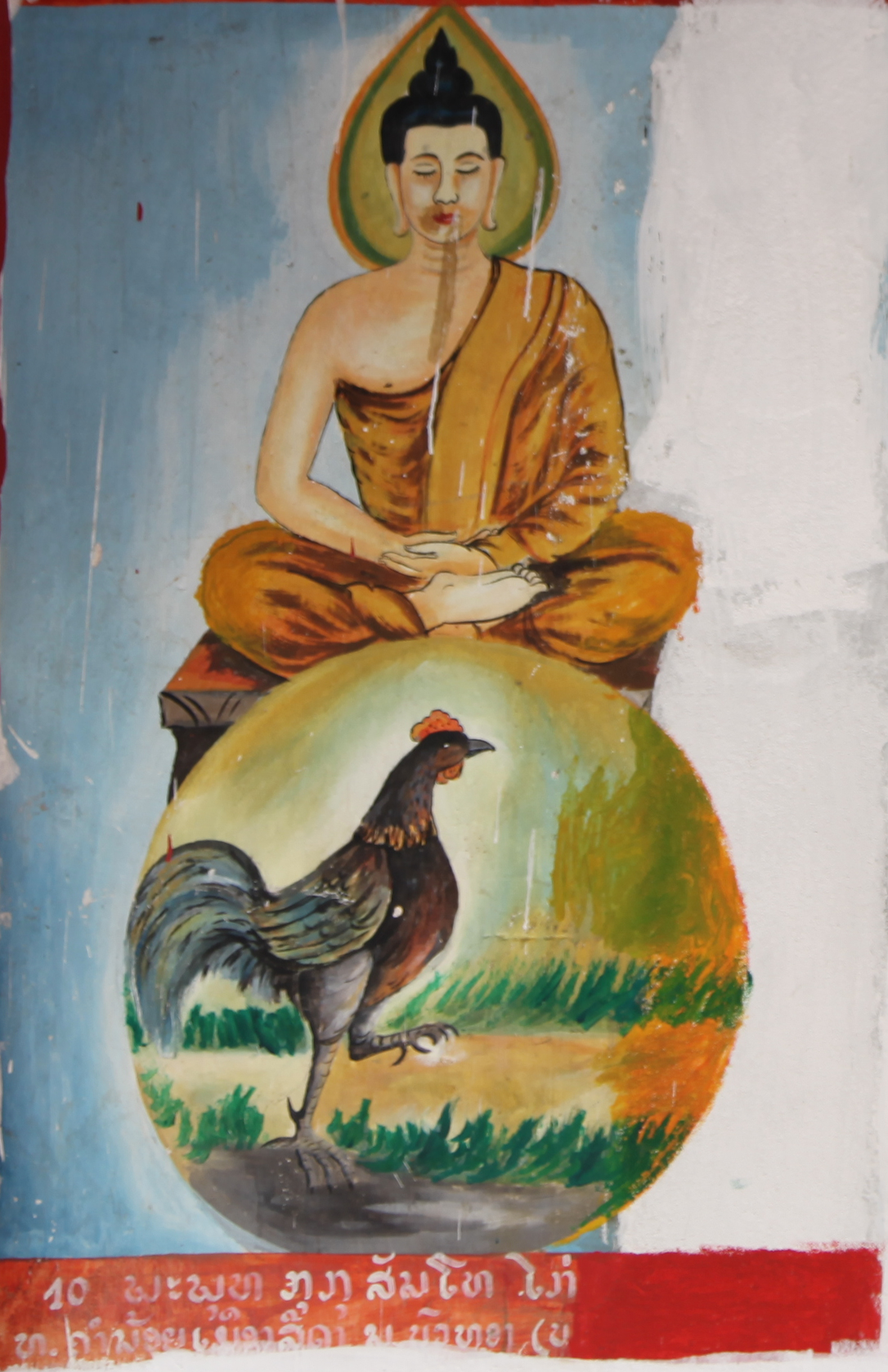 Painting of Kakusanda Buddha. Cropped from and edited File:Wat Ho Xiang - Luang Prabang 20110415-04.JPG